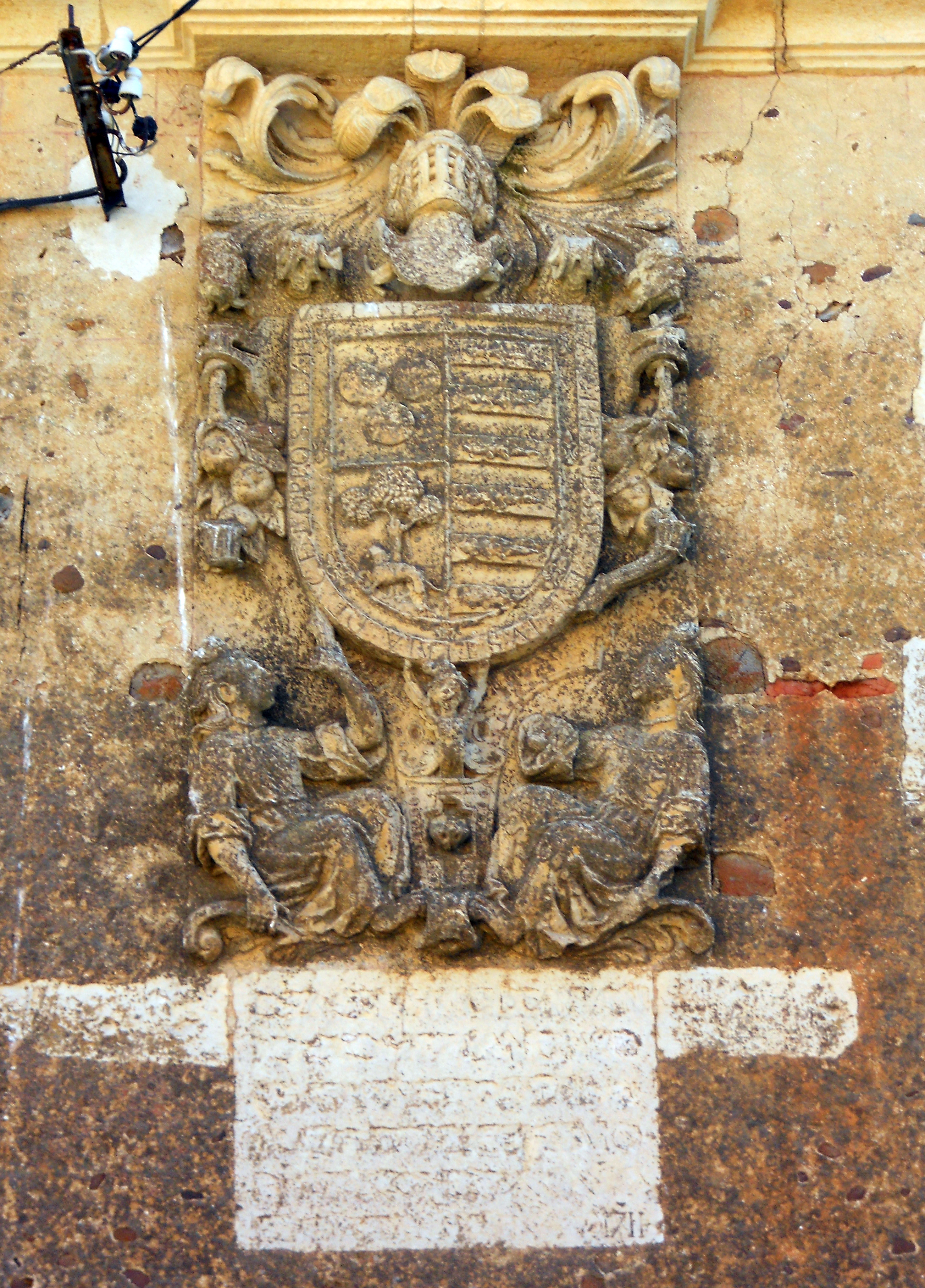 Reliefs of coats of arms in the manor house of Membrillar (Palencia, Castile and León).